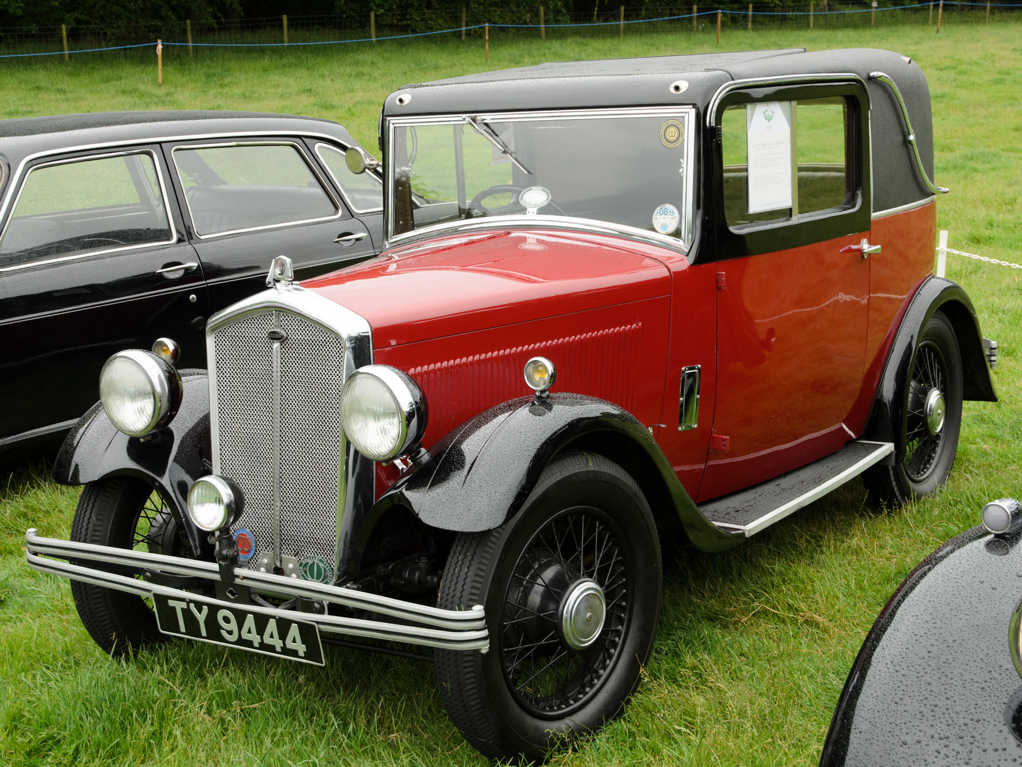 1932 Wolseley Hornet Occasional Four Coupe (DVLA) first registered 15 July 1932, 1208 cc Hoghton Tower Classic Car Show 14/06/2015